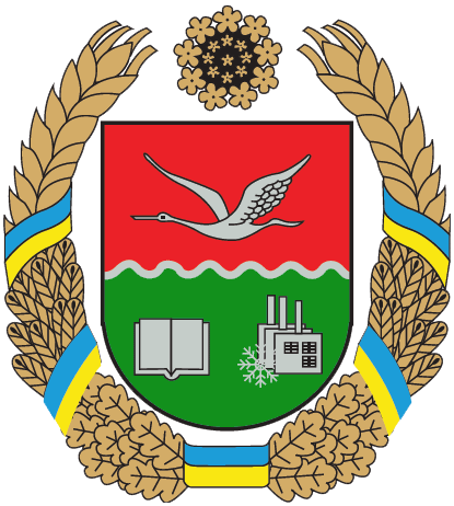 Coat of arms of Borodianski Raion, Ukraine.